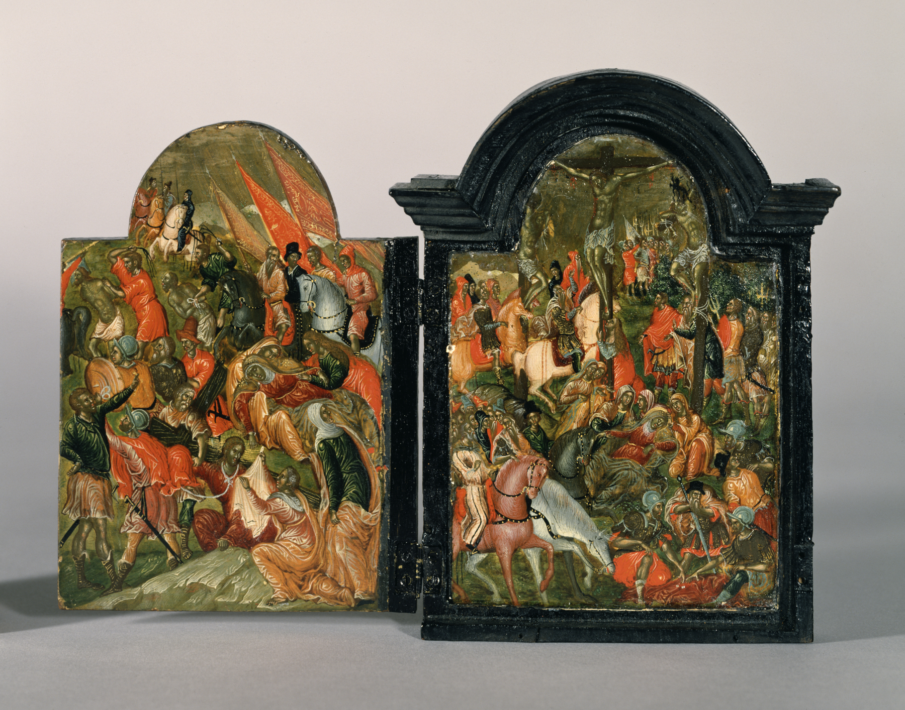 This folding icon was originally a triptych (three-paneled icon); the right wing is now lost. The panels that remain depict, on the left, Christ on the Road to Calvary and, on the right, the Crucifixion. This icon is an excellent example of the art produced on the Greek Island of Crete (then under Venetian control), where the Byzantine tradition of icon painting had survived the fall of the empire. The strong color contrasts, fluid highlights, and contorted poses of the figures suggest that the icon was painted by George Klontzas, one of the most innovative Cretan icon painters of the late 16th century.